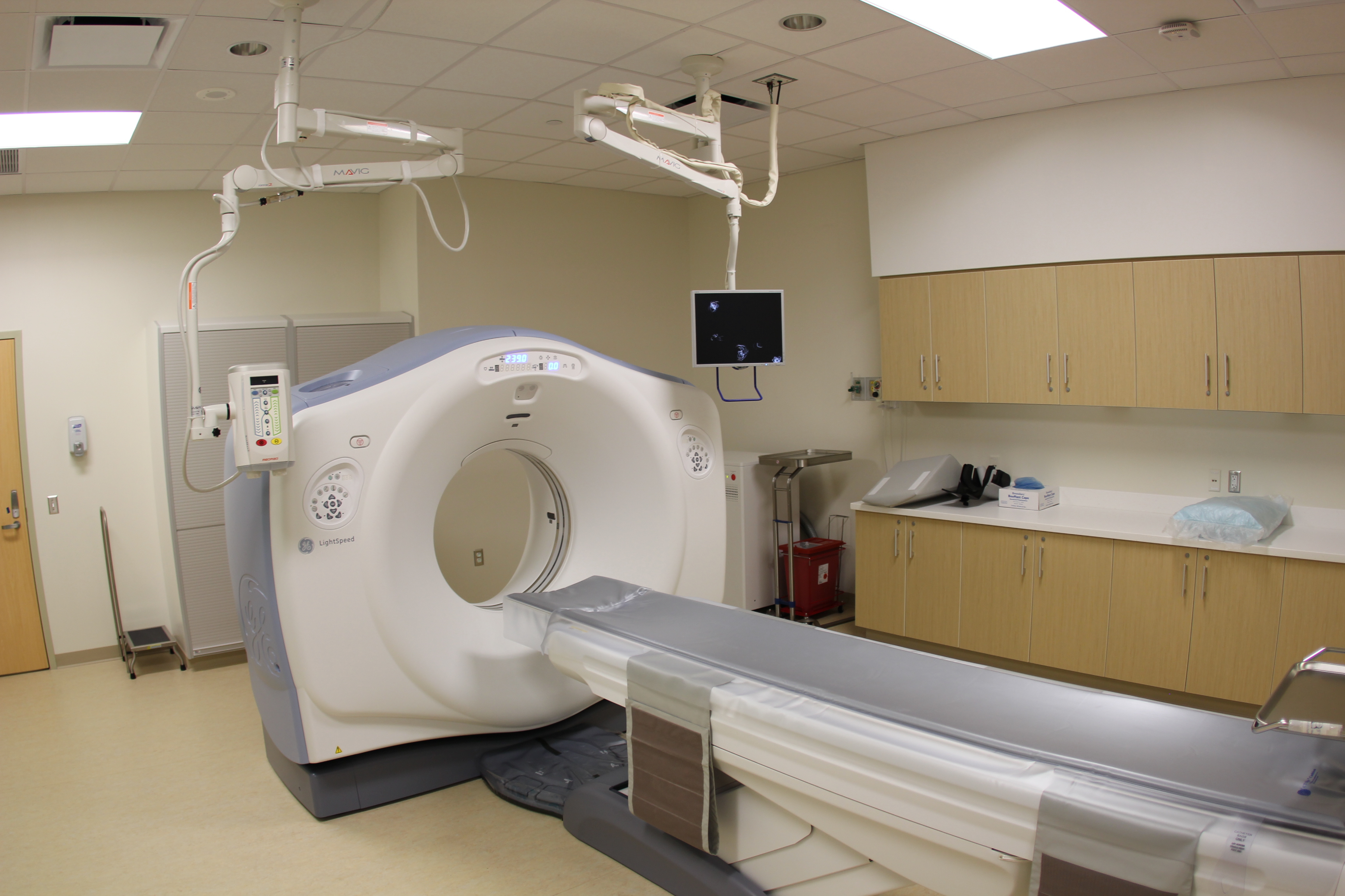 GE LightSpeed CT scanner at Open House, Monroeville, Pennsylvania